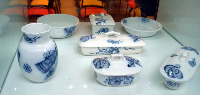 Set of ceramic tableware or bathroom ware, produced by Société Céramique or Sphinx potteries around 1900. On display in Info Center Redevelopment Plan Belvédère in the former showroom of Koninklijke Sphinx, Maastricht, the Netherlands.